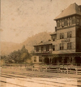 Part of the Babahatchie Inn in Oakdale, Tennessee, United States, photographed in the 1880s.